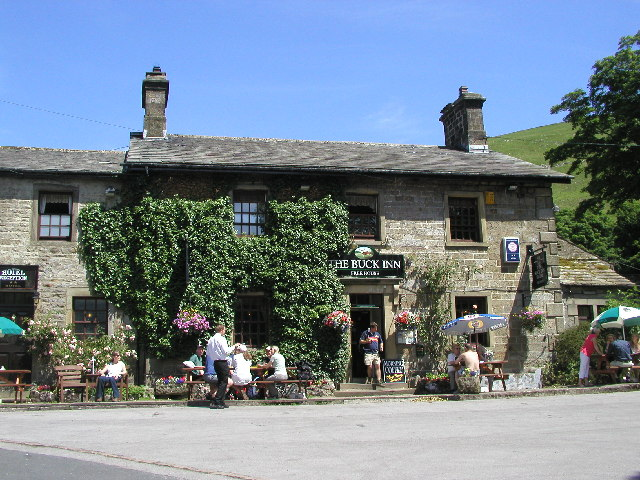 The "Buck Inn" pub at Buckden, North Yorkshire.